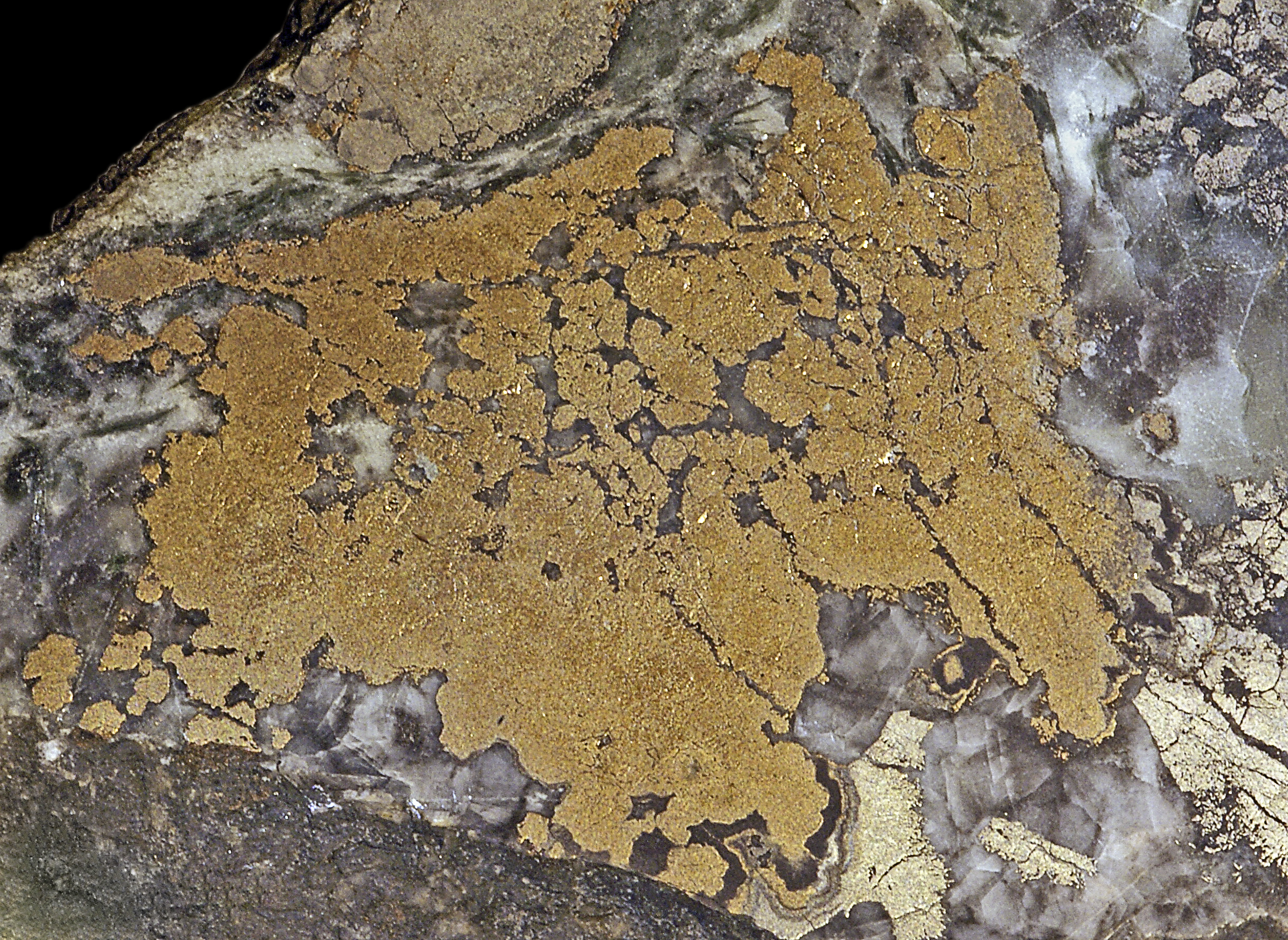 Nickeline Locality : Keeley-Frontier Mine (Canadian Keeley; Frontier Mine; Keeley Mine), South Lorrain Township, Cobalt-Gowganda region, Timiskaming District, Ontario, Canada Size : 6x4cm